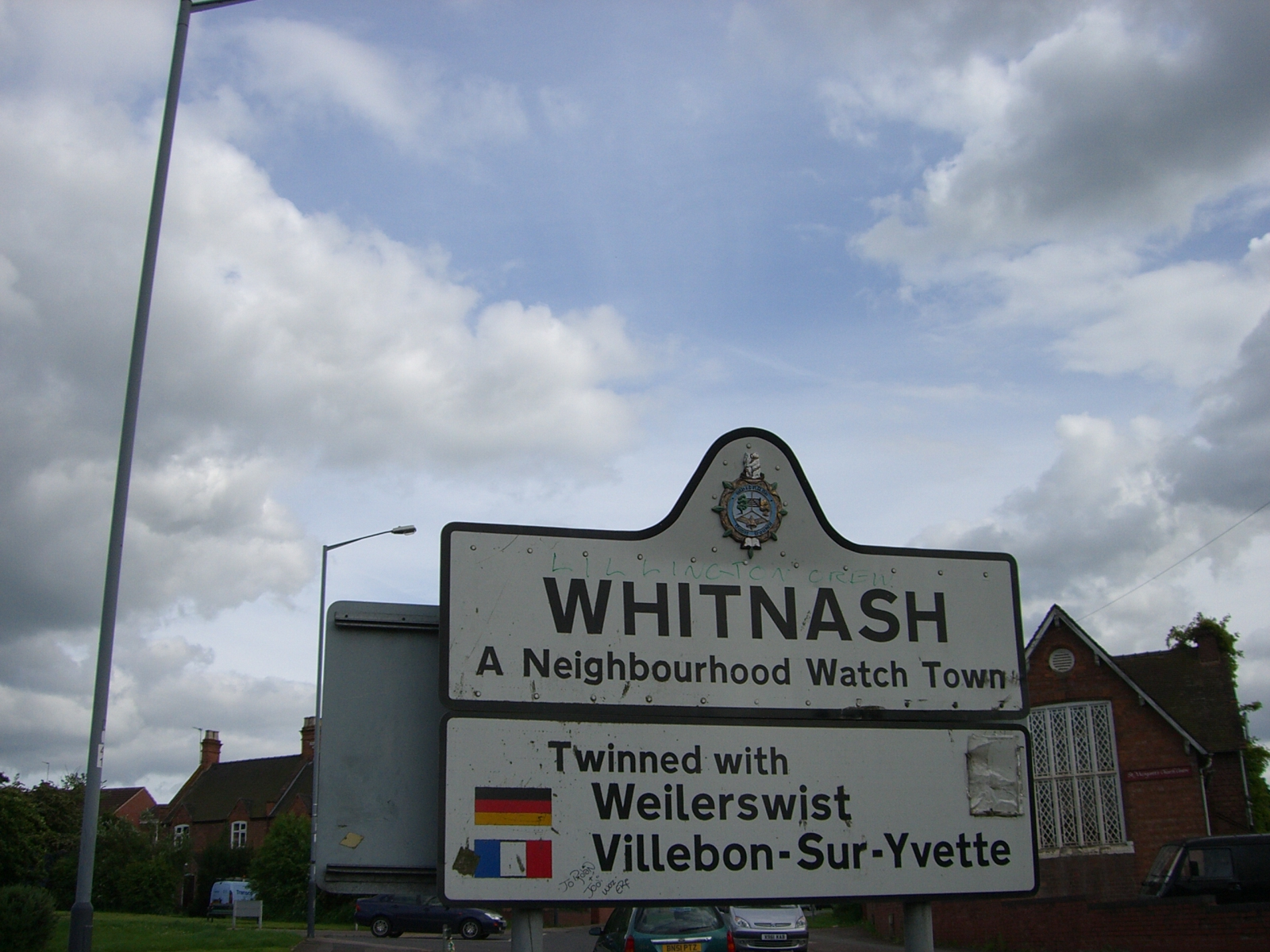 Town sign of Whitnash, Warwickshire, England.